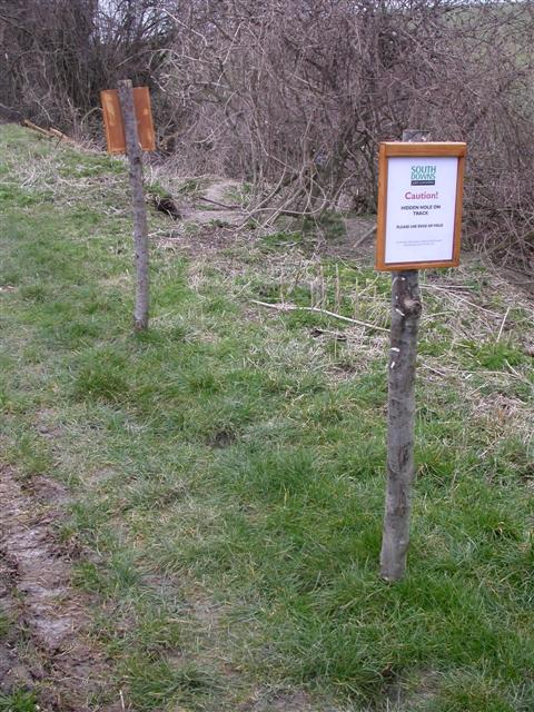 The Nanny State comes to the country The signs say "Caution! Hidden hole on track", and have been erected by the South Downs Park authority. If you look really carefully, there's a brown mark midway between the posts, which is the hole. Do we really need to be told this?